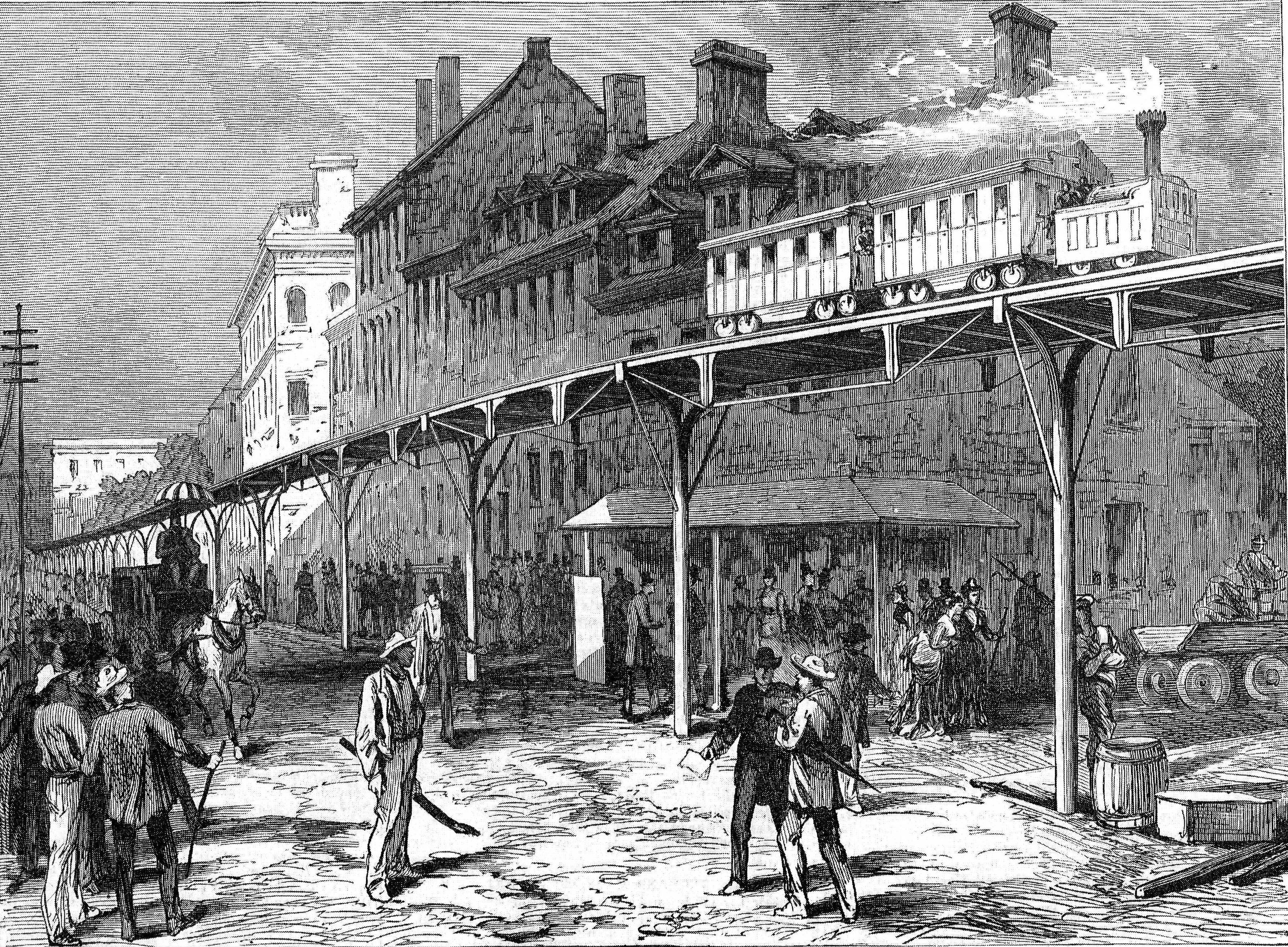 "A Street Railway in New York" - 1876 engraving showing a railway suspended above the ground on a narrow wooden track above a road, held up by Y-shaped beams.